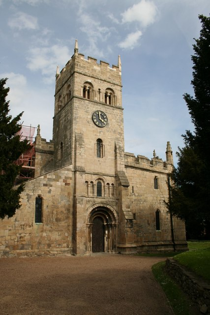 Parish church of St Mary Magdalene, High Street, Campsall, South Yorkshire, seen from the northwest